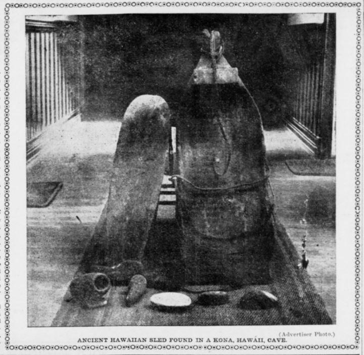 According to the Surfing Heritage and Culture Center in San Clemente, the oldest known papa heʻe nalu, or surfboard, dates to the 1600s and comes from Chiefess Kaneamuna’s burial cave in Ho’okena on the Big Island.